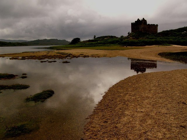 Castle Tioram The word "tioram" denotes an island that dries at low water